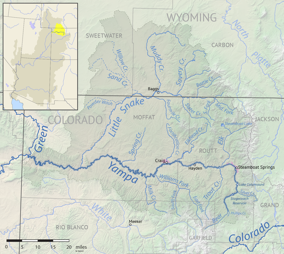 Map of the Yampa/Little Snake drainage basin in Colorado and Wyoming, USA. Made using USGS data.